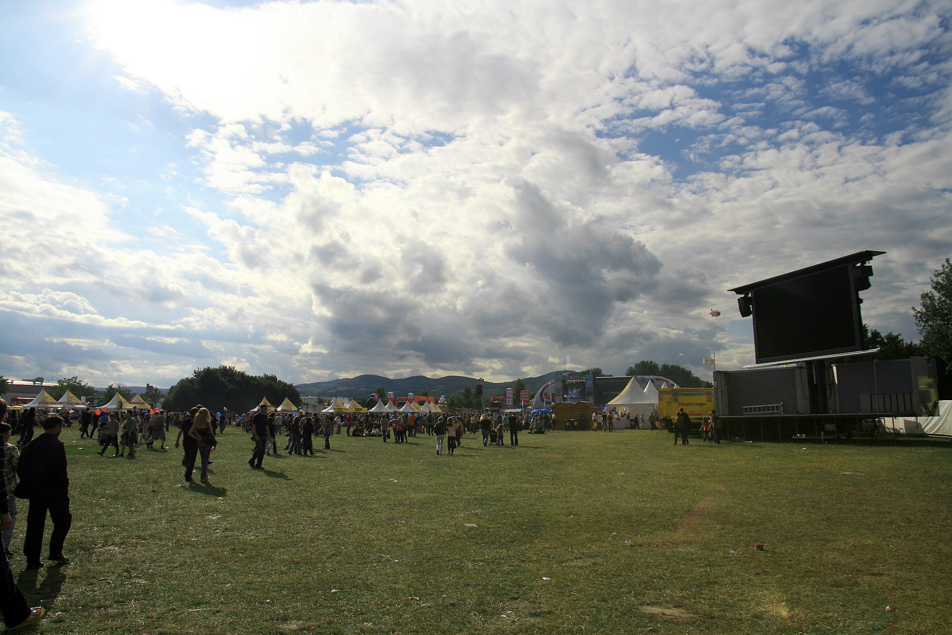 Donauinselfest in Vienna